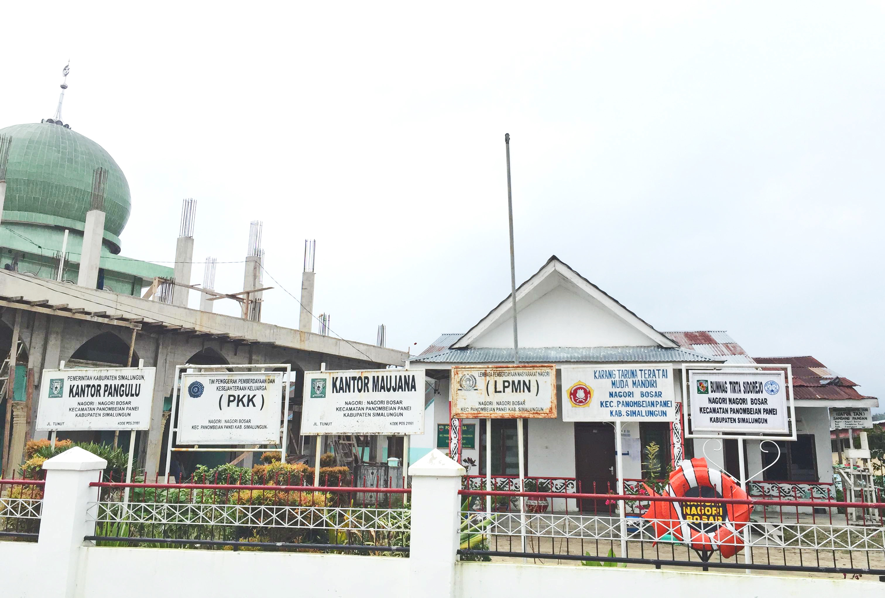 Office of Nagori (village) of Nagori Bosar, Panombeian Panei, Simalungun